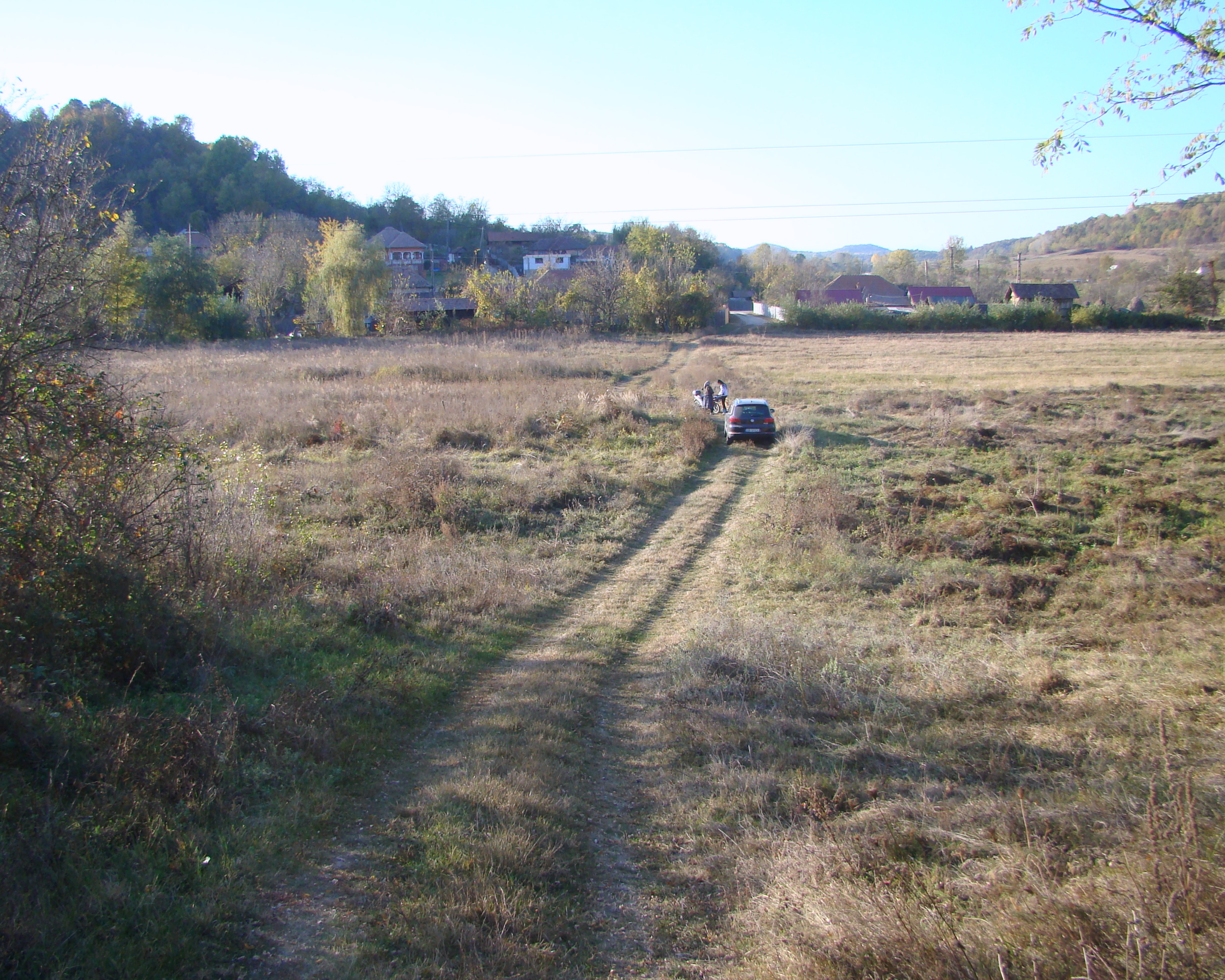 Larga, Gorj county, Romania